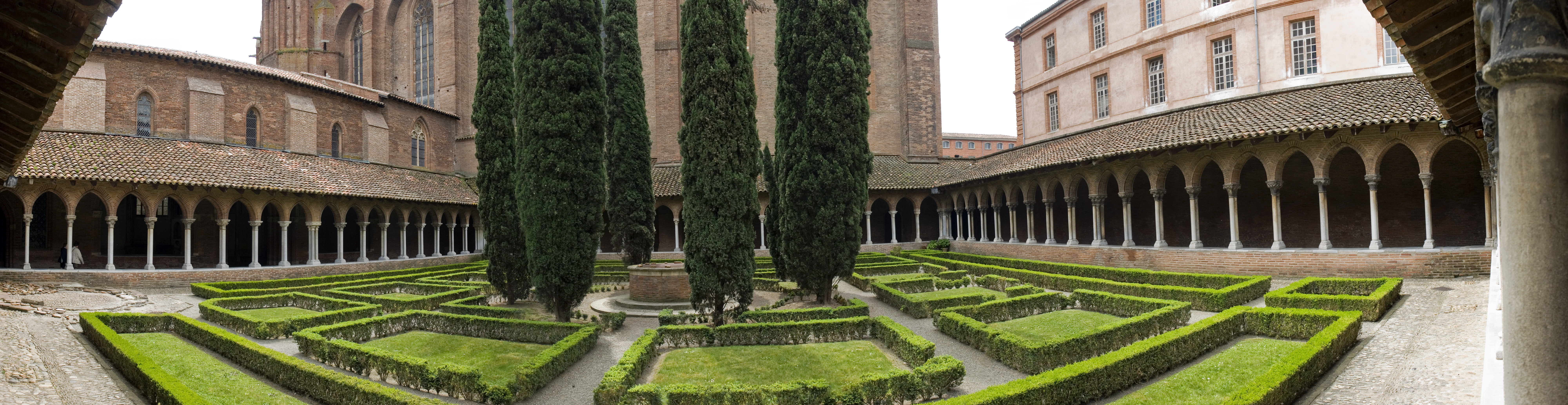 Panorama of Jacobins cloister, shoot from north side (Toulouse, France)